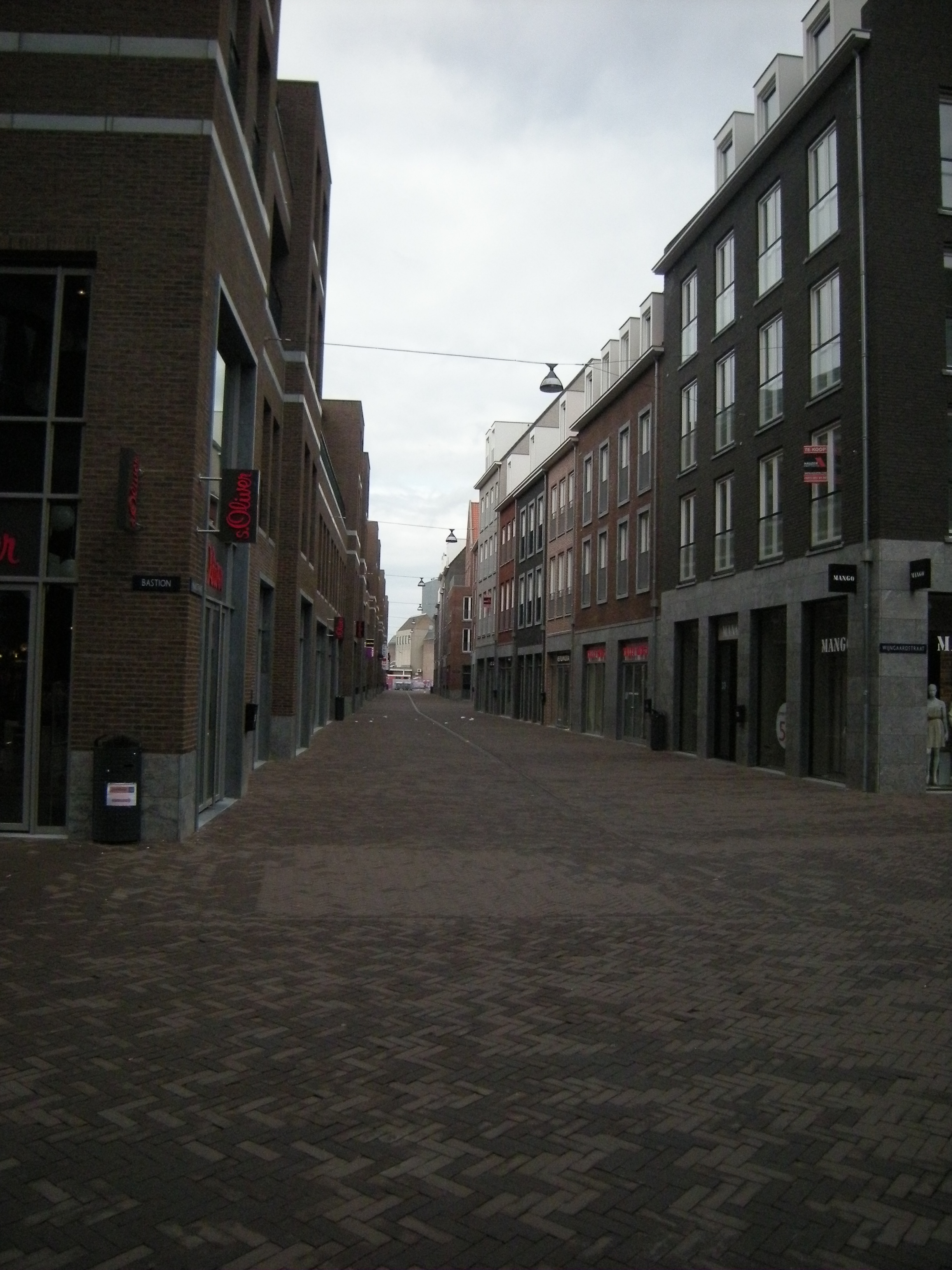 Maasboulevard Venlo 01